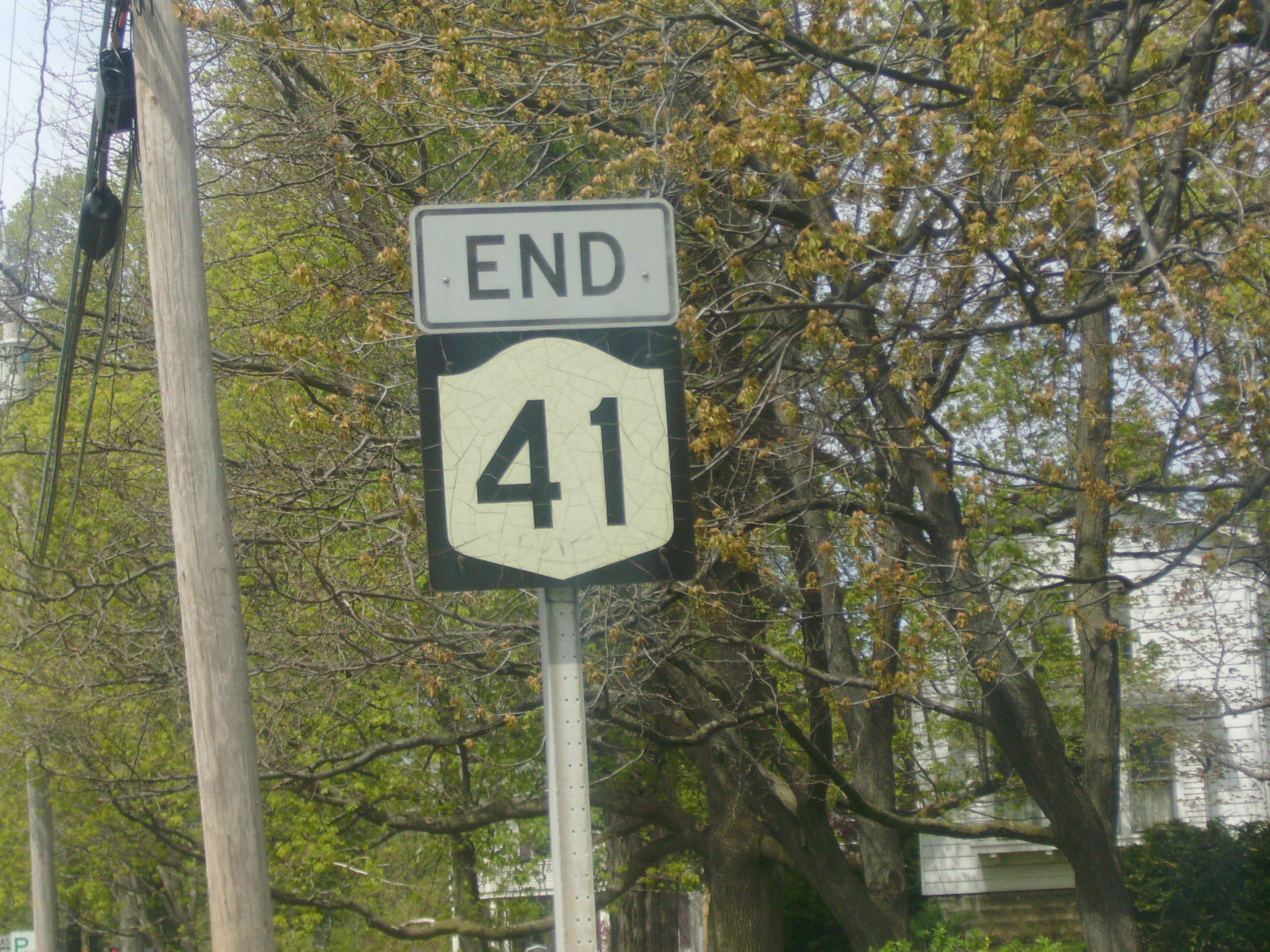 The sign depicting the northern terminus of NY Route 41 in the village of Skaneateles, New York.